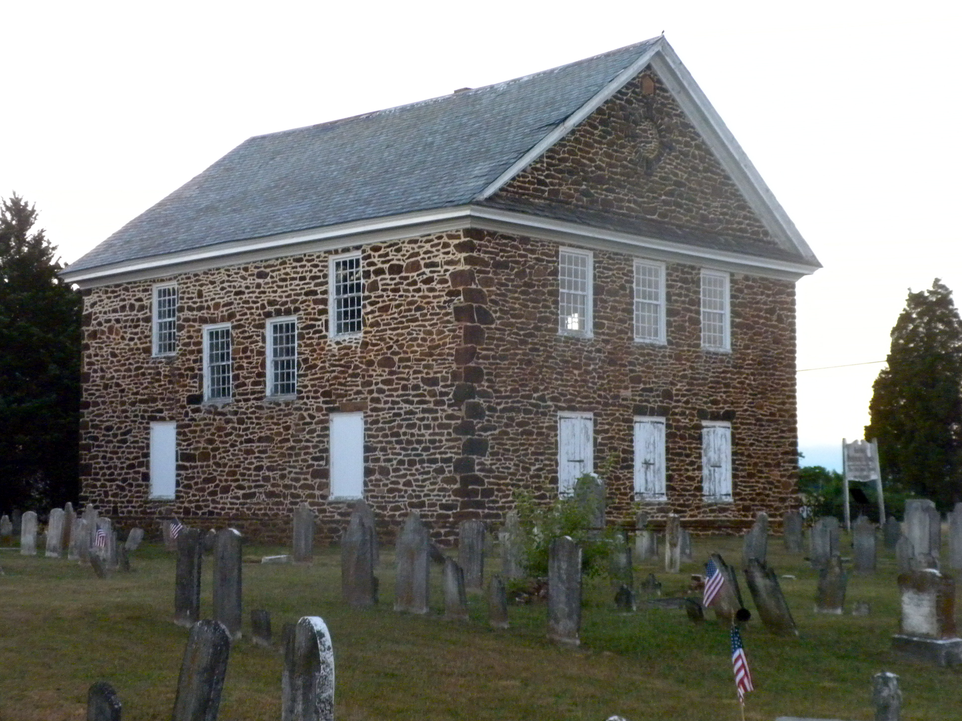 Old Stone Church on NRHP since May 12, 1977. North of Cedarville, New jersey on NJ 553 in Cumberland County. Church abandoned but it and graveyard maintained about 1850 so old forms kept. Old forms in this case being Quaker inspired architecture in a Presbyterian Church.